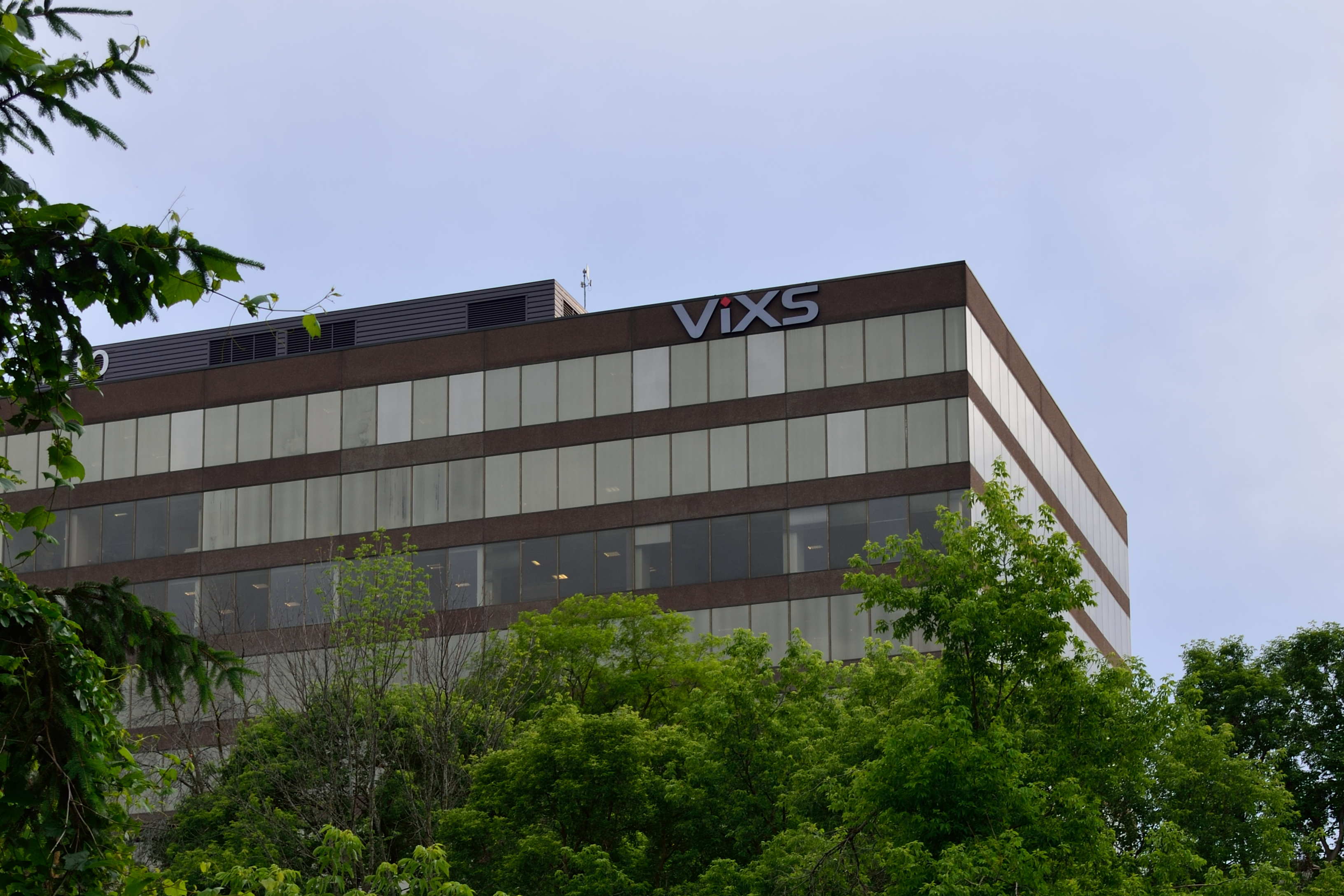 ViXS Toronto HQ Office